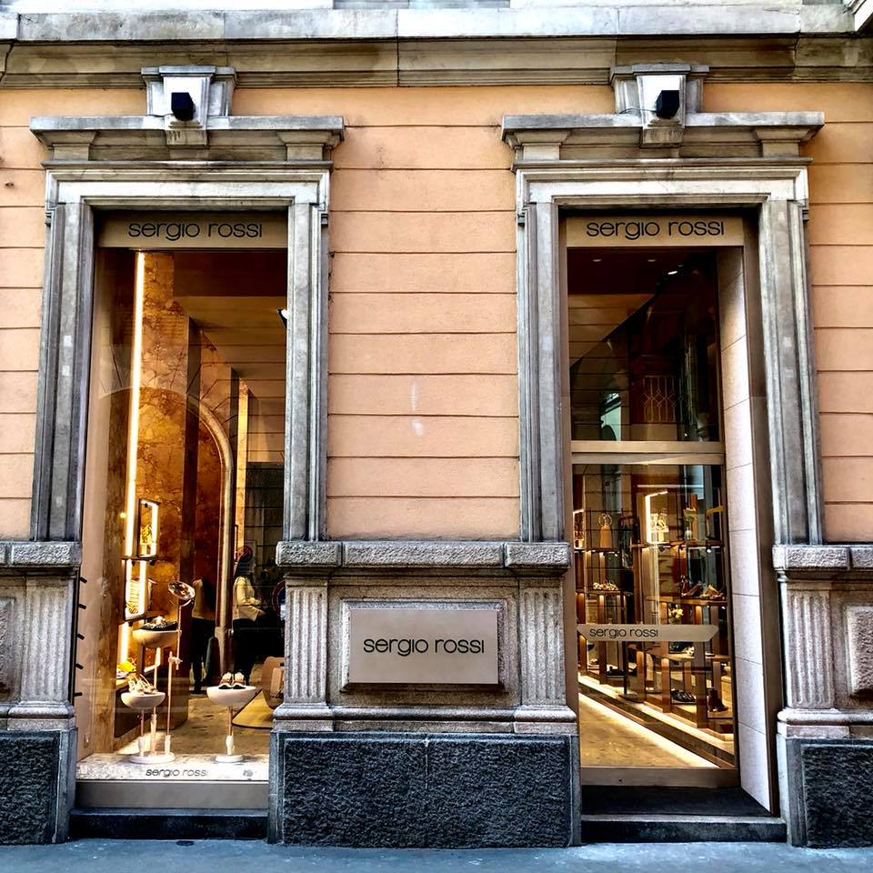 Milano Montenapoleone